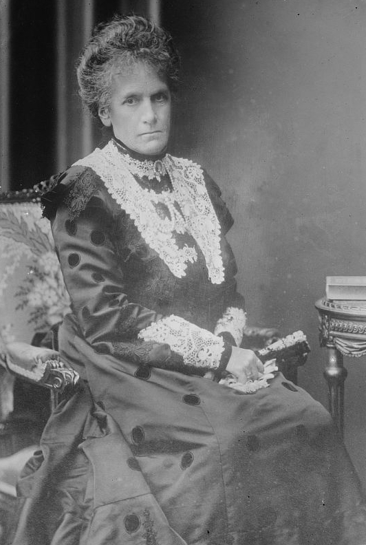 Maria Theresa of Austria-Este Bain News Service,, publisher. Queen of Bavaria [between ca. 1910 and ca. 1915] 1 negative : glass ; 5 x 7 in. or smaller. Notes: Title from unverified data provided by the Bain News Service on the negatives or caption cards. Forms part of: George Grantham Bain Collection (Library of Congress). Format: Glass negatives. Repository: Library of Congress, Prints and Photographs Division, Washington, D.C. 20540 USA, General information about the Bain Collection is available at Persistent URL: Call Number: LC-B2- 2916-4